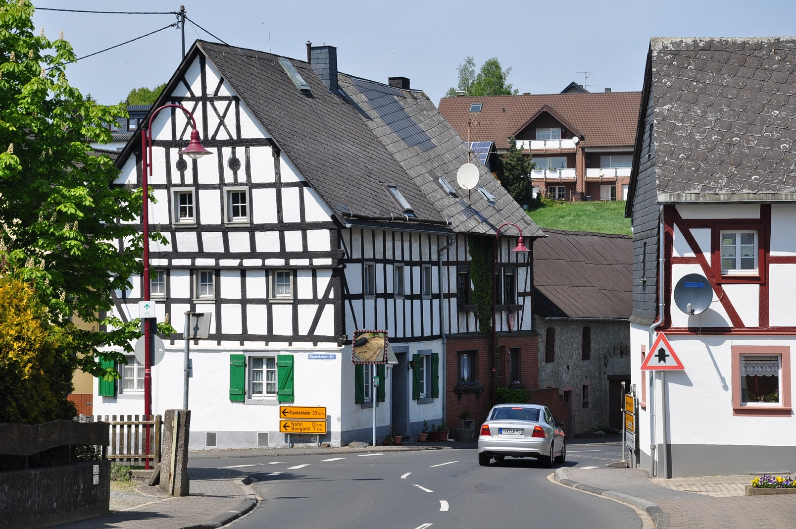 The cente of Kelberg, Rhineland-Palatinate (Eifel), Germany, with timber-framed house.